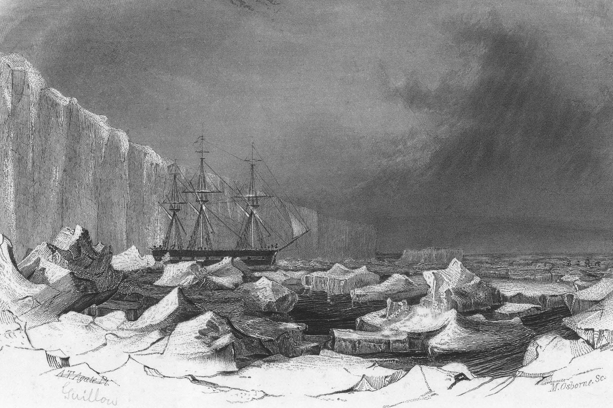 The US Navy sloop USS Peacock was stuck in the ice in January 1840, shortly after the first confirmed sighting of the Antarctic continent by a US Navy ship. She was lost on the Columbia river in July 1841.